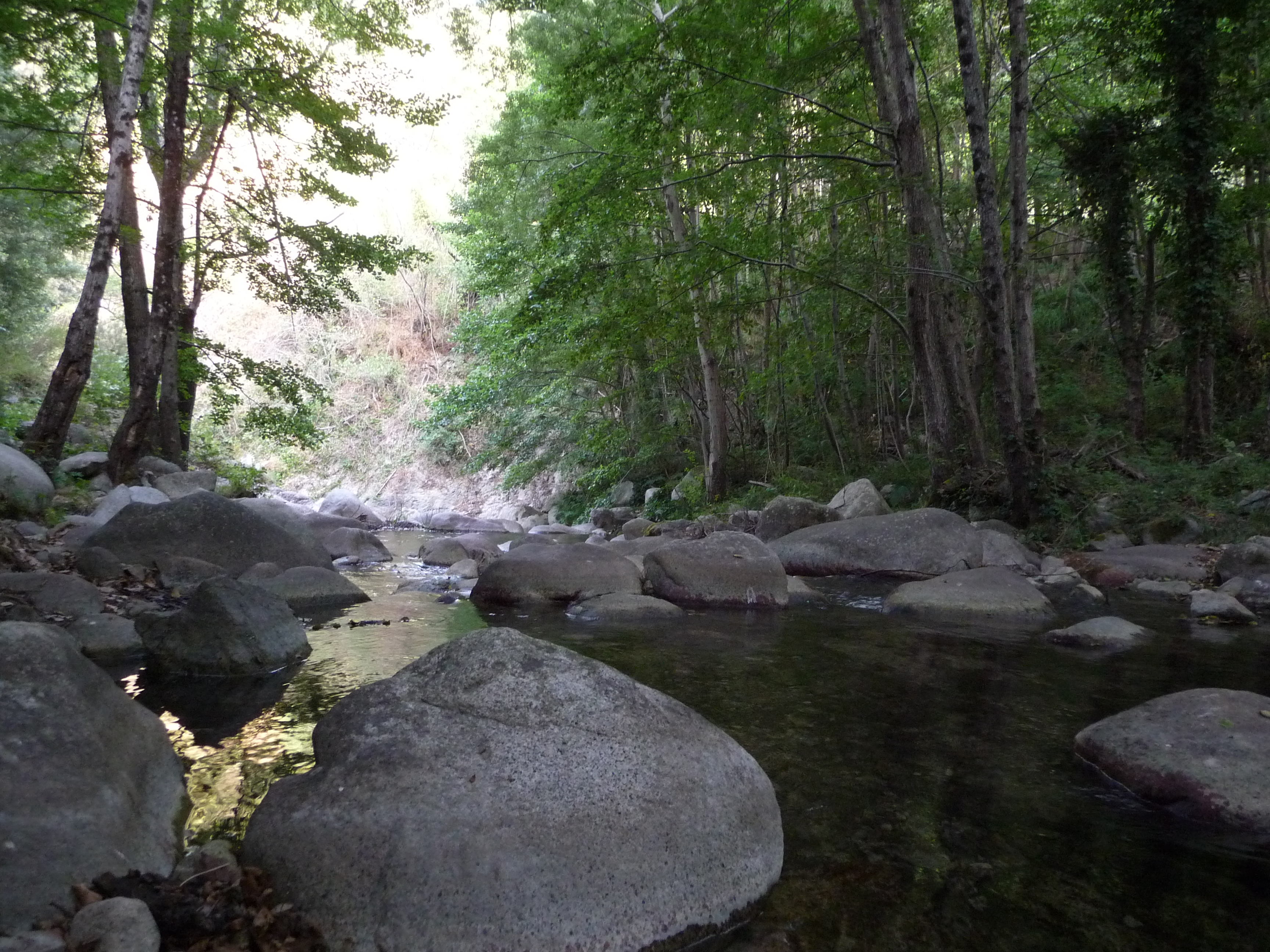 Stilaro River (Calabria-Italy)